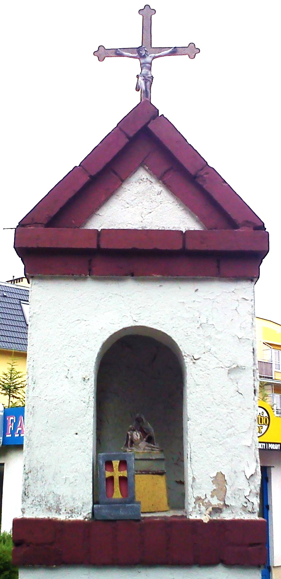 Chapel in Naramowice, Poznan.